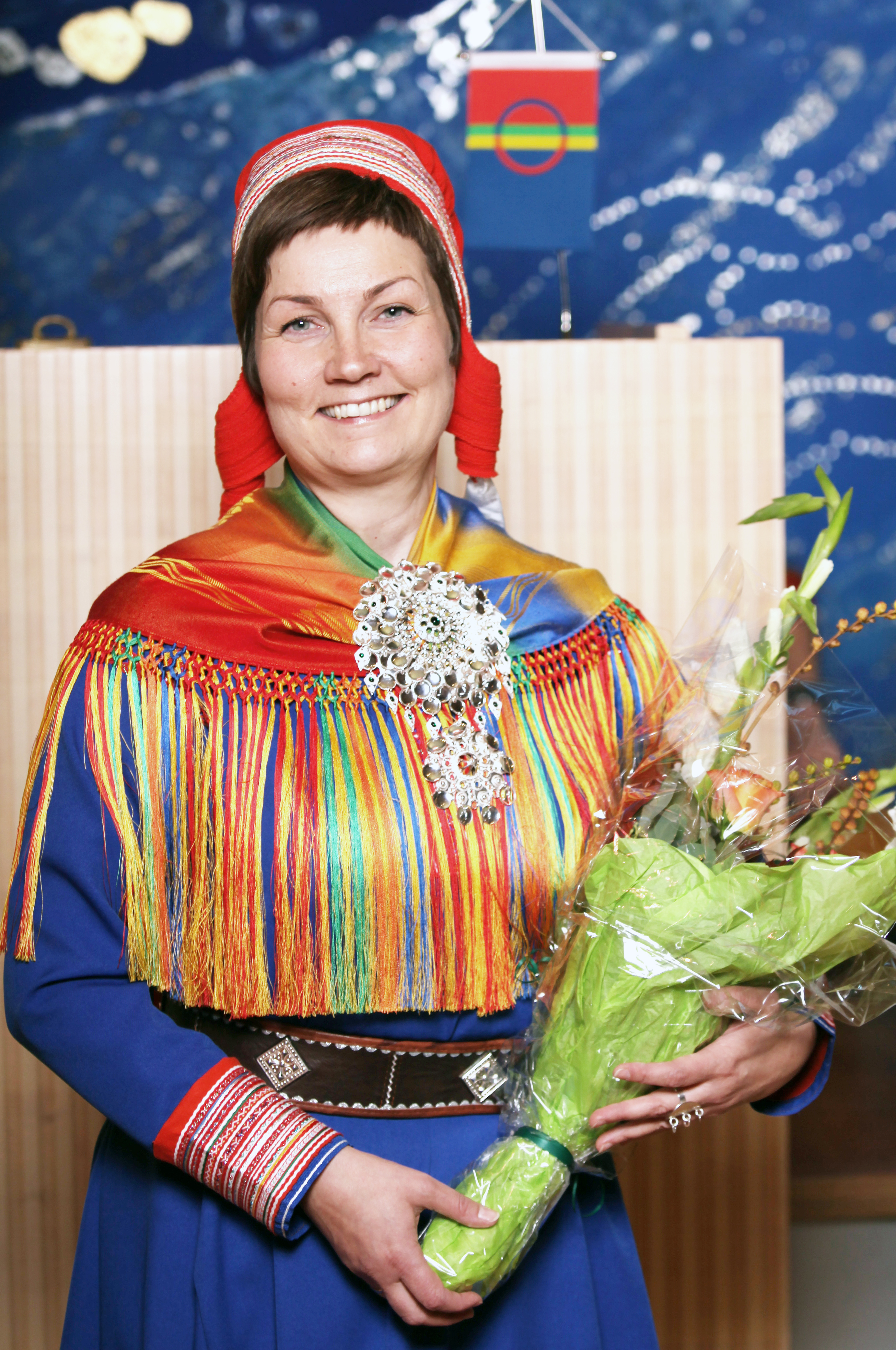 The Sámi Parliament president Aili Keskitalo, elected october 16 2013.